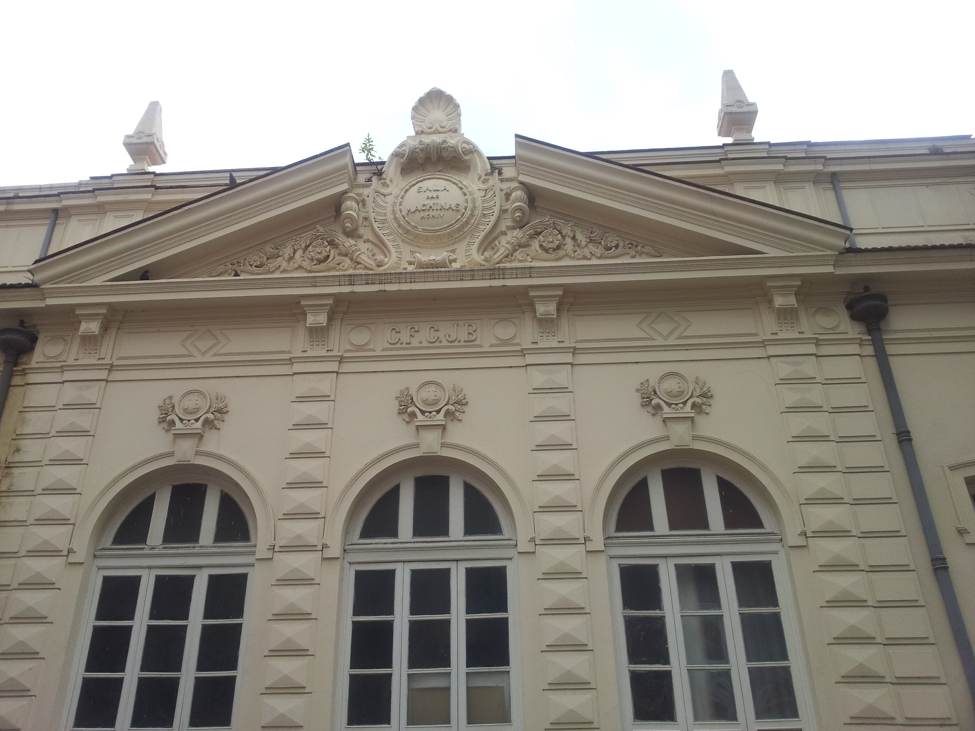 Building (1904) of the former Companhia Ferro-Carril do Jardim Botânico, located at Beco do Pinheiro, Rio de Janeiro, RJ, Brazil. This building, now, hosts the Instituto de Arquitetos do Brasil do Rio de Janeiro.